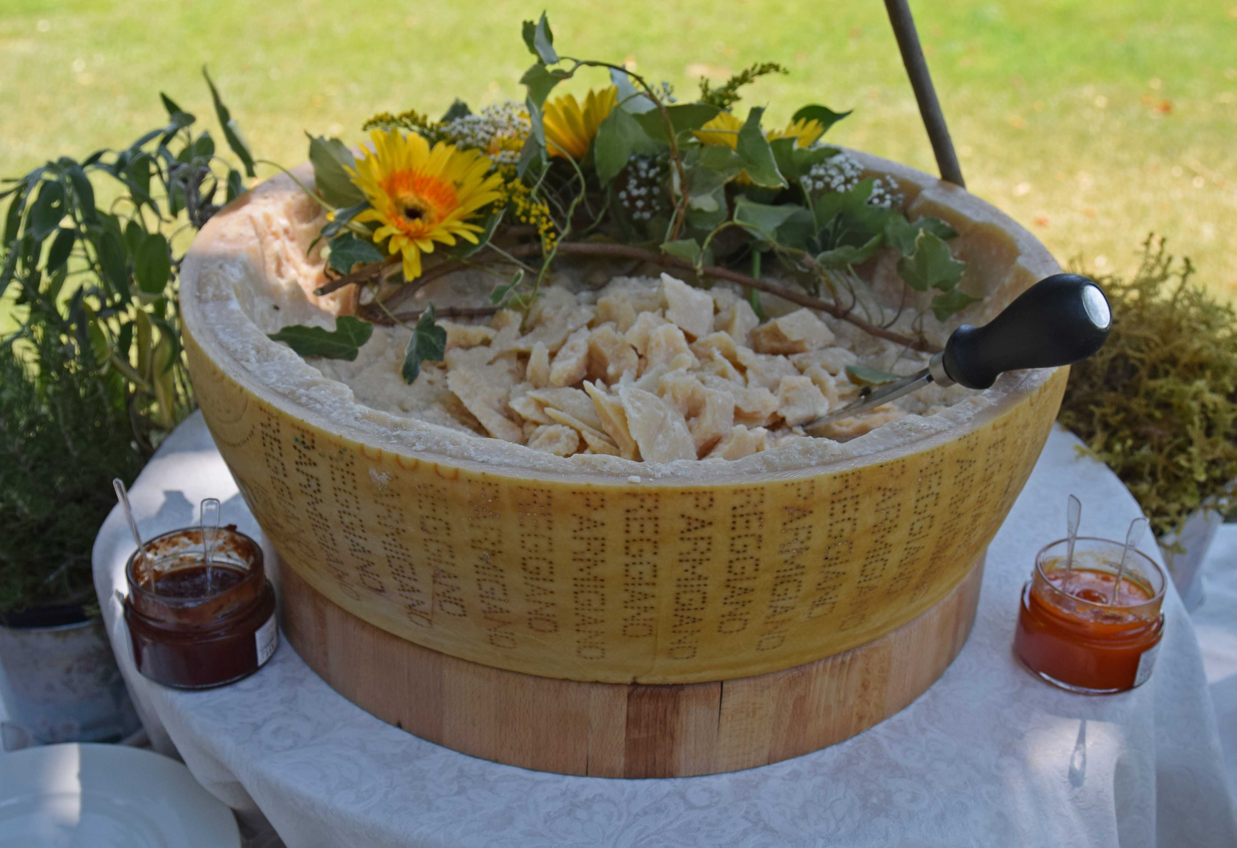 Parmiggiano in wedding celebration antipasti, Castello di Valenzano, Arezzo province, Toscana